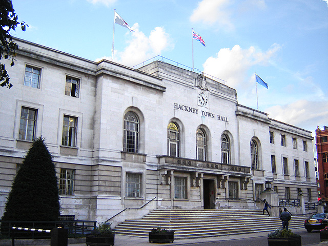 Hackney town hall, Mare Street, Hackney, London. 20 October 2005. Photographer: Fin Fahey.